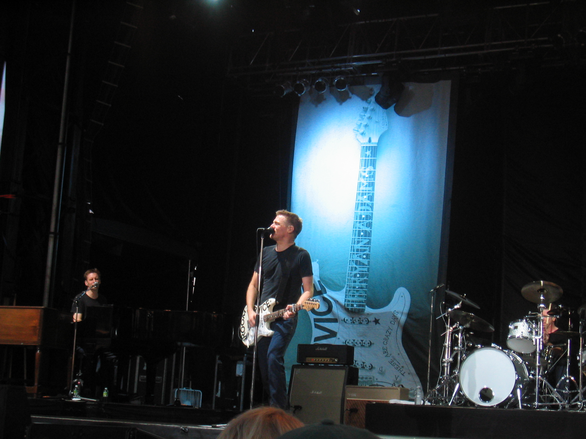 Bryan Adams live in Brooklyn, Hamburg, New York City, USA on July 9, 2005